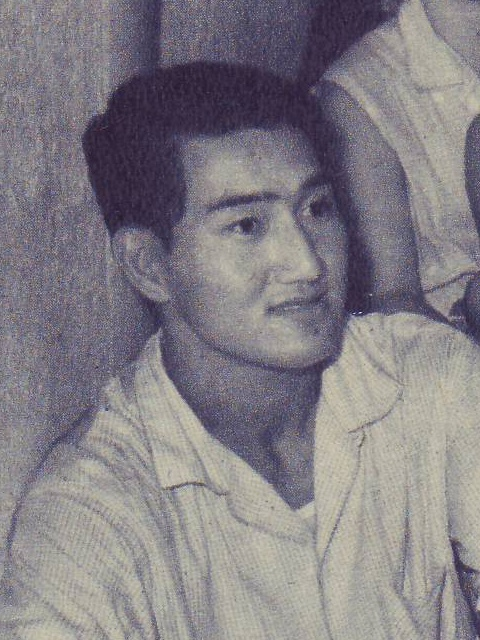 Andy Miyamoto. taken in 1956.